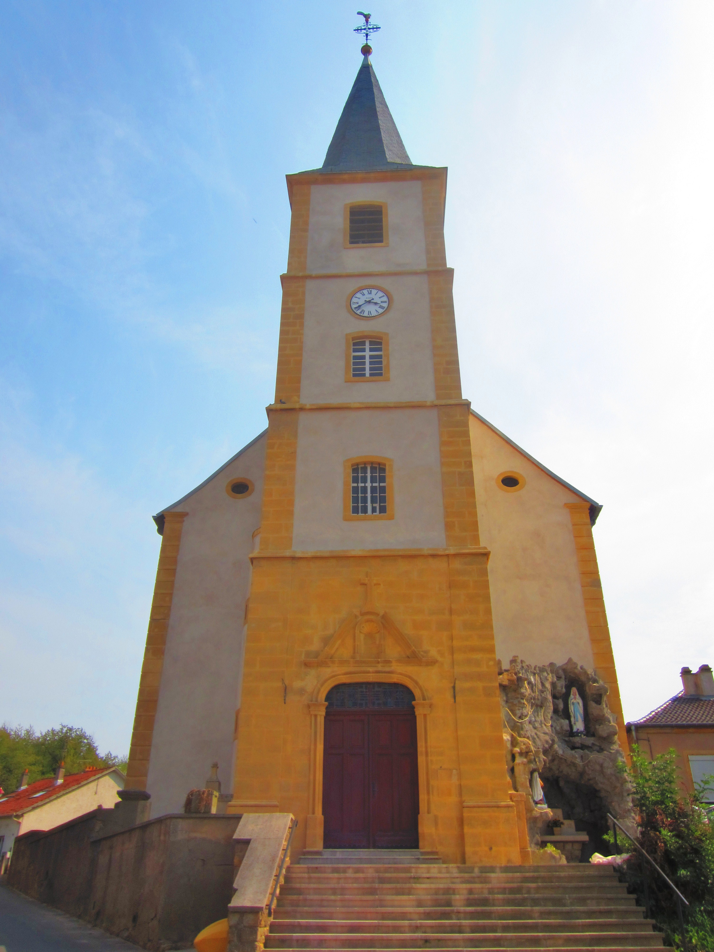 Koenigsmacker church